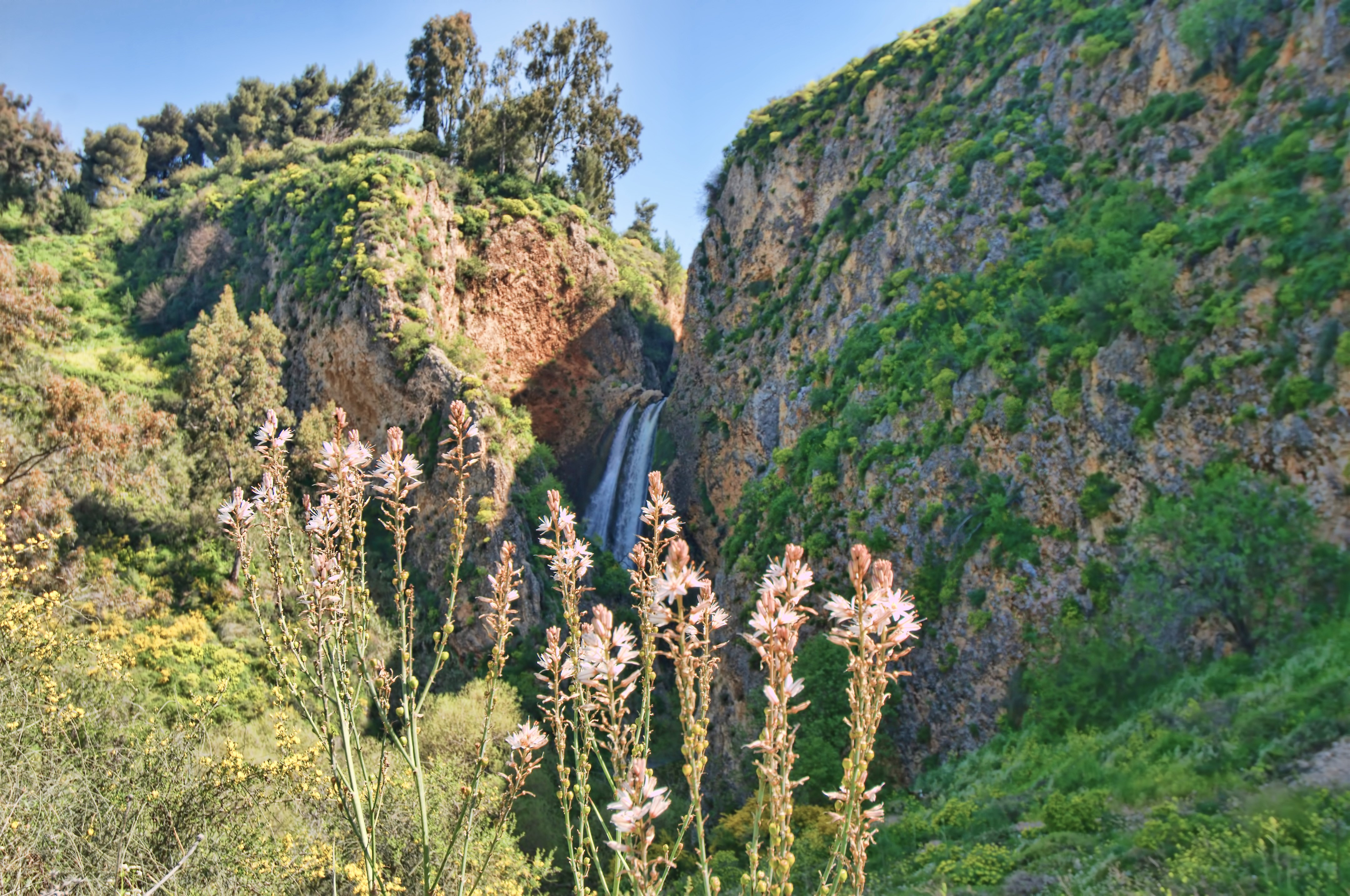 Hatanur Waterfalls Metula